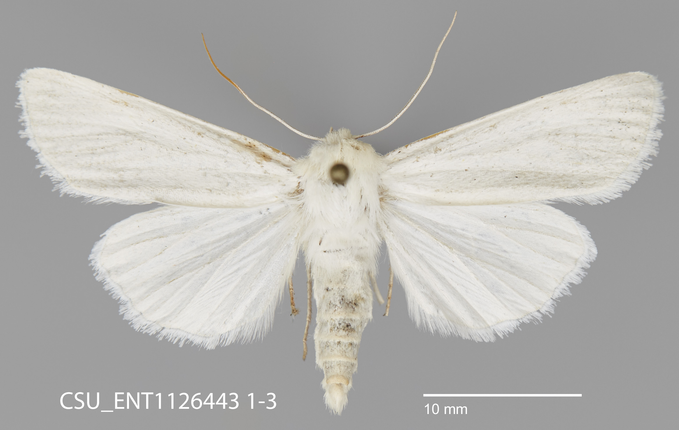 C.P. Gillette Museum of Arthropod Diversity Catalog #: CSU_ENT1126443 Taxon: Copablepharon albisericea Blanchard Family: Noctuidae Collector: P.A. Opler Date: 2007-08-17 Additional Collectors: T. Gilligan Locality: United States, Colorado, Weld, County Road 386, 4 mi. NNE Roggen 40.200806 -104.3355 +-25m. WGS84 Verbatim Coordinates: 40° 12' 02.9" N 104° 20' 07.8" W Elevation: 1421 meters Verbatim Elevation: 4663' Life Stage: Adult Individual Count: 1